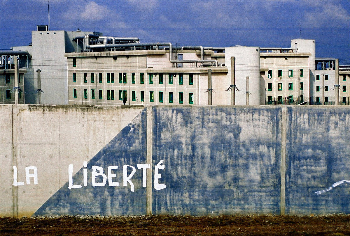 Graffiti La Liberté on a wall of Villeneuve-lès-Maguelone's prison, near Montpellier (Hérault, France).